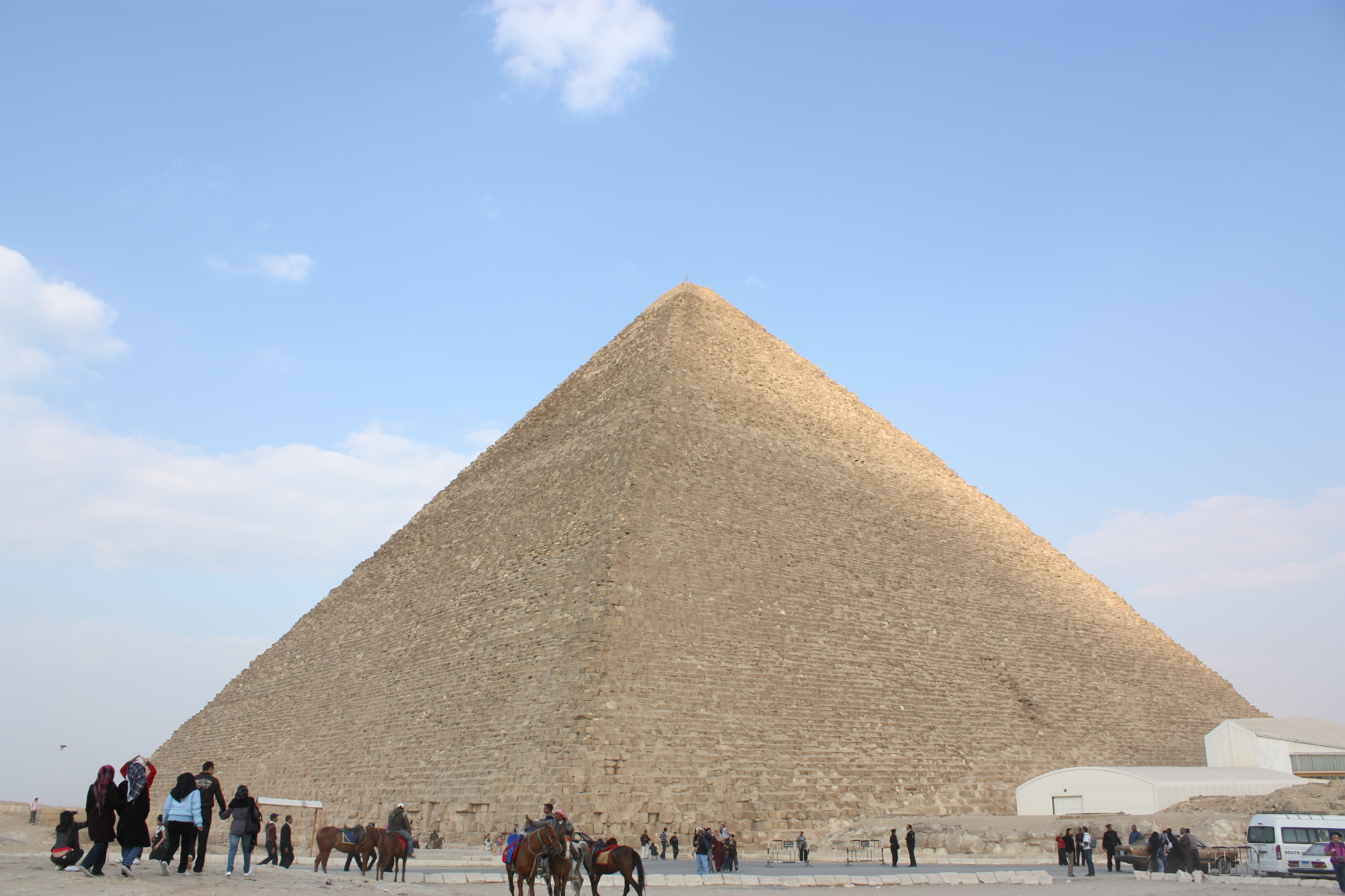 Great Pyramid of Giza.